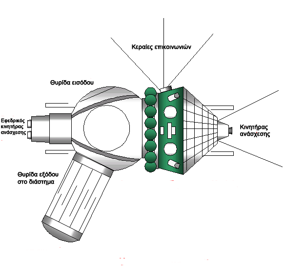 Voskhod spacecraft diagram